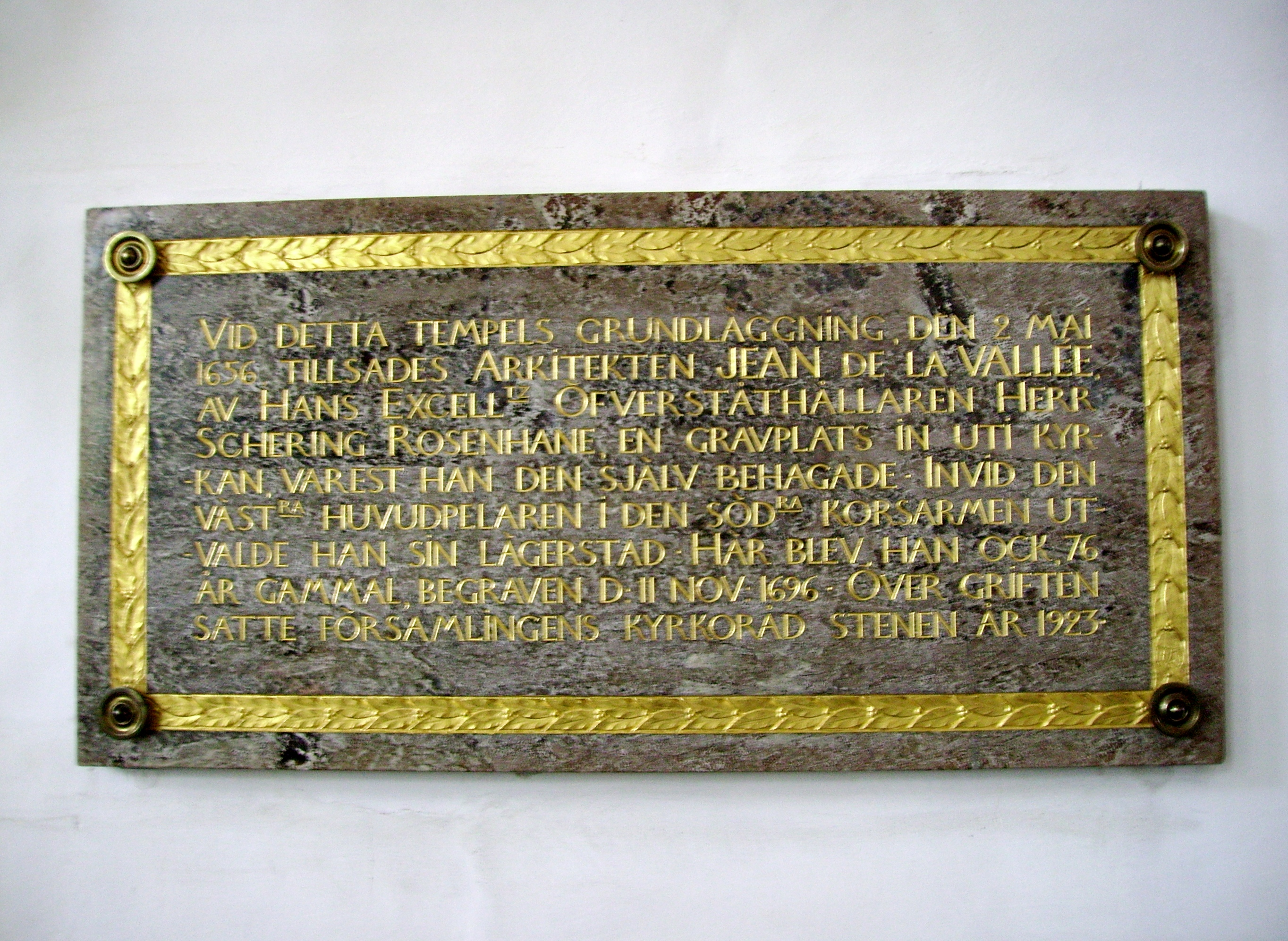 Picture of Jean del Valles grave in Katarina kyrka